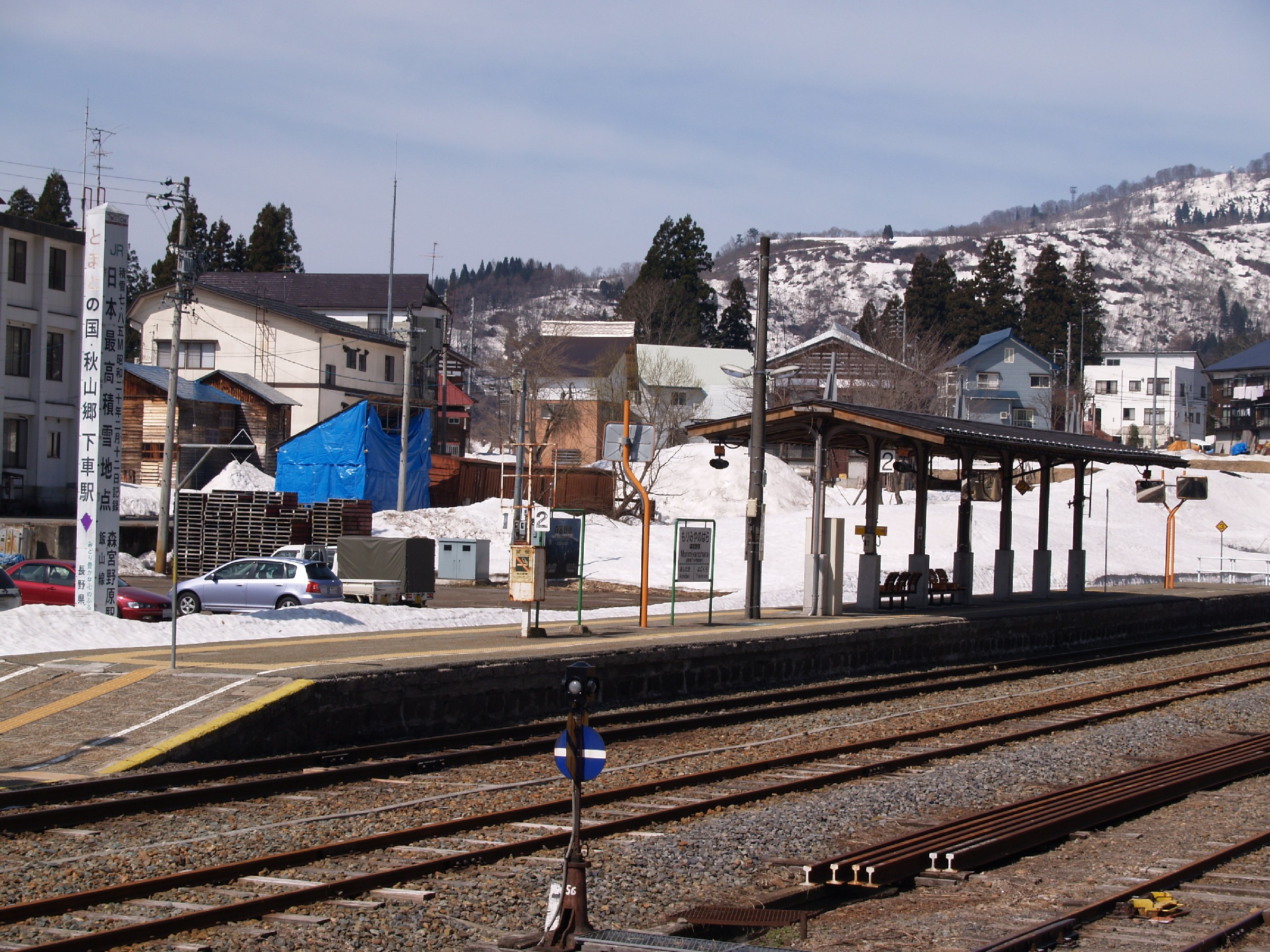 Morimiyanohara Station platform